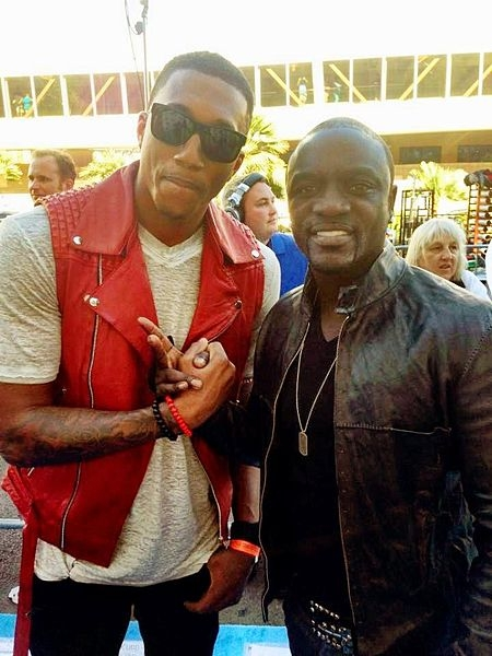 Lecrae (left) and Akon (right). REACH ARTISTS FILE. Billboard Awards, 2013, Photos. iPhone.